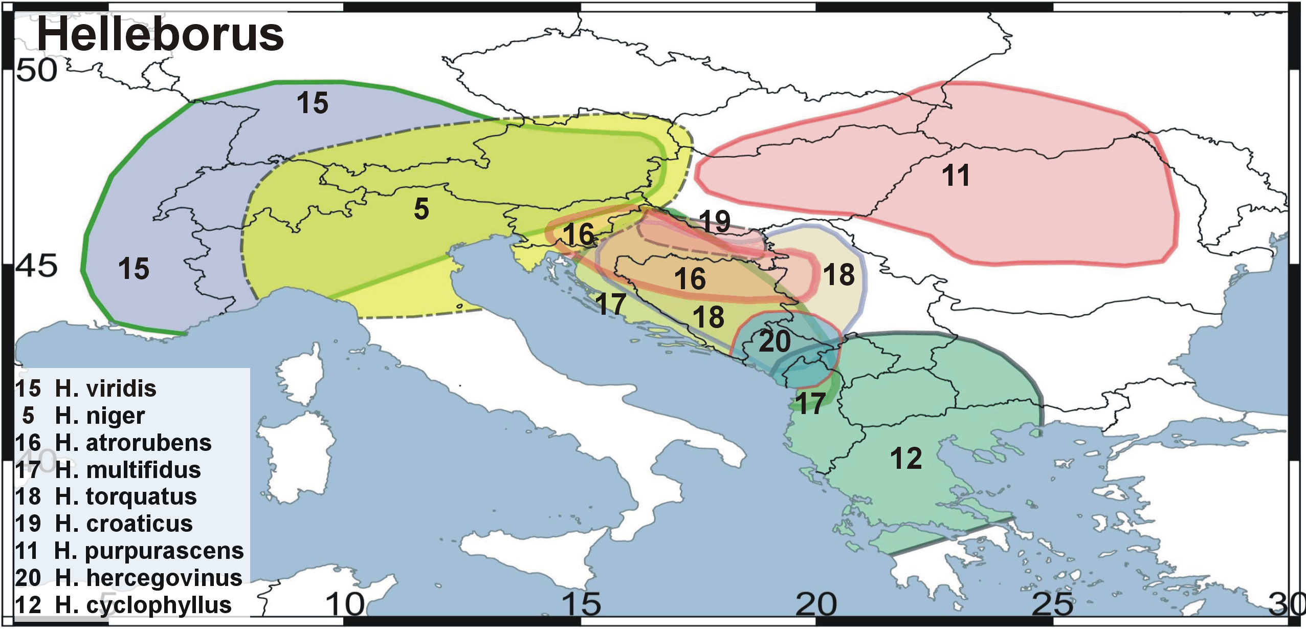 Sources: KLAUS WERNER and FRIEDRICH EBEL; Zur Lebensgeschichte der Gattung Helleborus L. (Ranunculaceae);Flora (1994) 189, p.97-130 Walter K. Rottensteiner; Attempt of a morphological differentia tion of Helleborus species in the Northwestern Balkans; Modern Phytomorphology 9 (Suppl.): 17–33, 2016